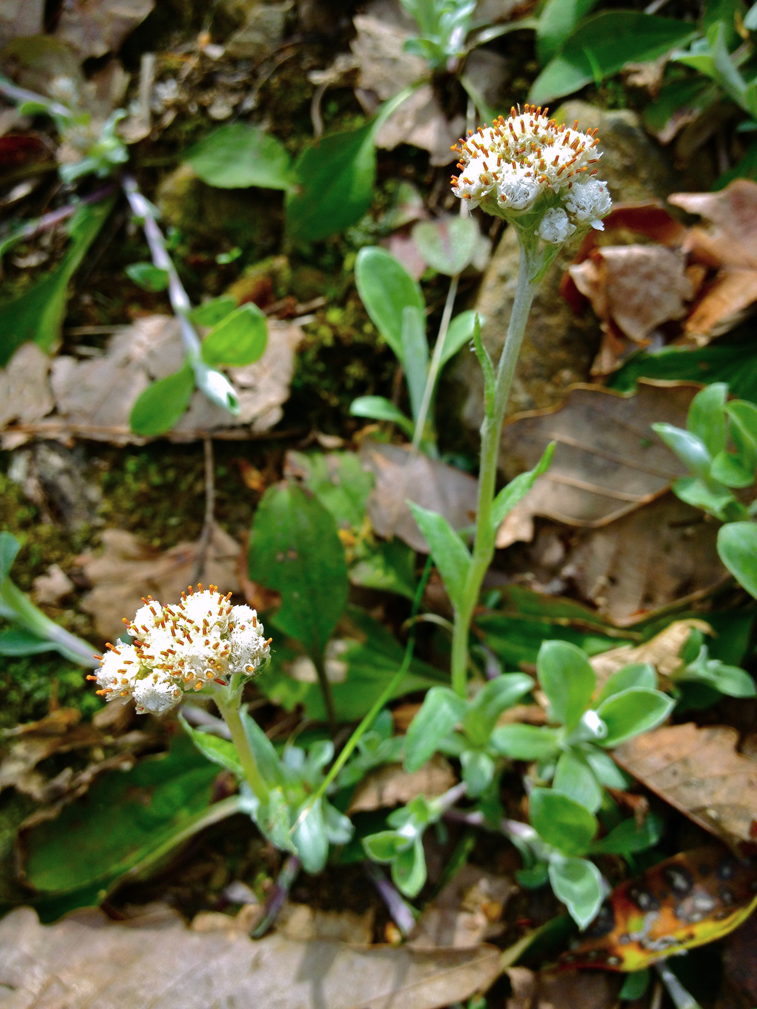 Photograph of Antennaria plantaginifolia in flower. This is a native plant growing wild in Scotts Run Nature Preserve, Fairfax county, Virginia, USA. This species is a member of the Asteraceae family.